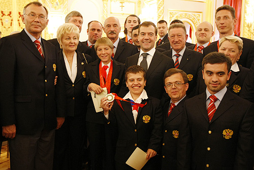 THE GRAND KREMLIN PALACE, MOSCOW. Meeting with medallists at the XIII Paralympics in Beijing.